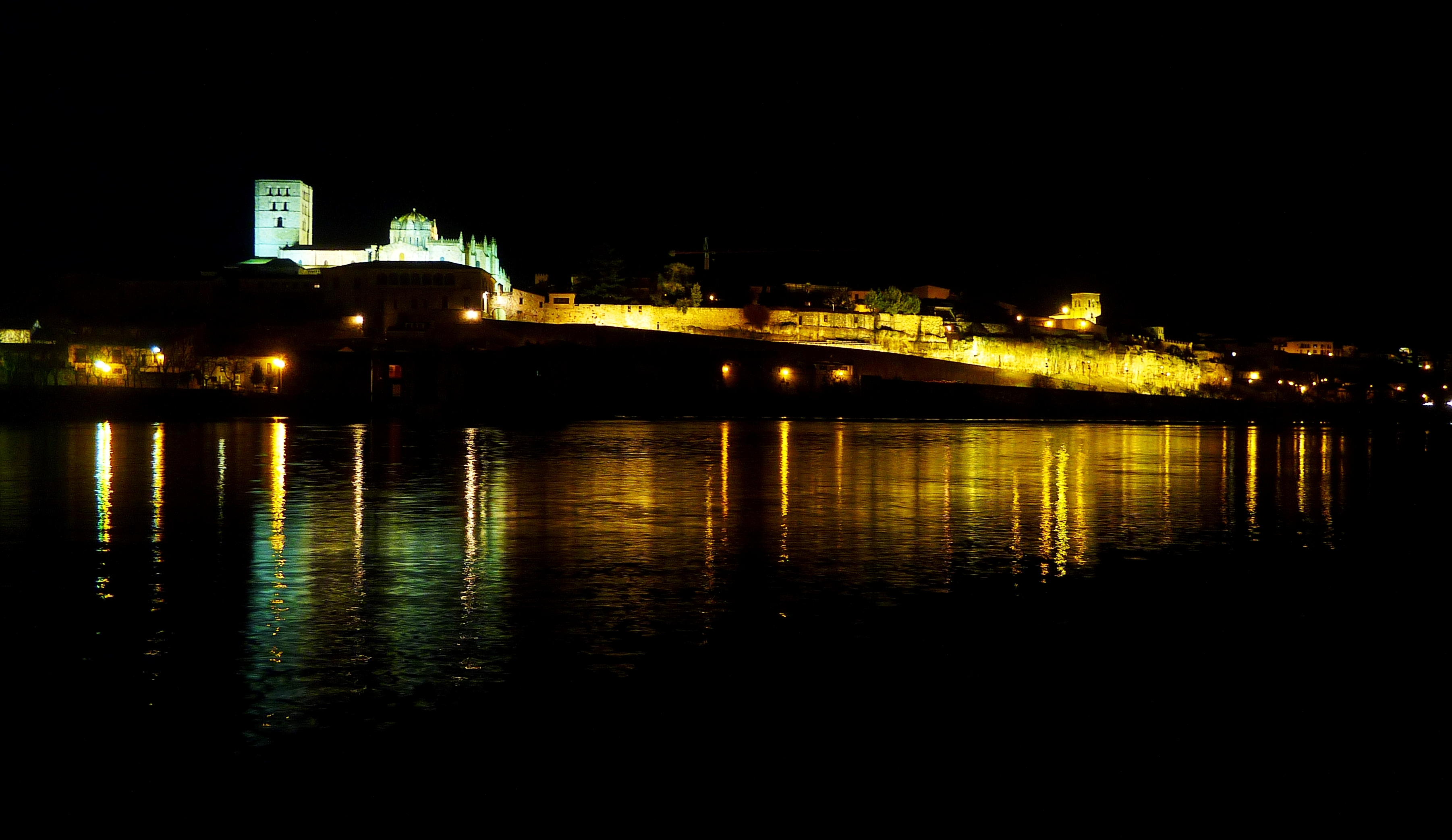 The Peñas de Santa Marta, a rocky plateau at the side of the Douro River on which settled the first inhabitors of Zamora (Spain), with the Cathedral on the left.